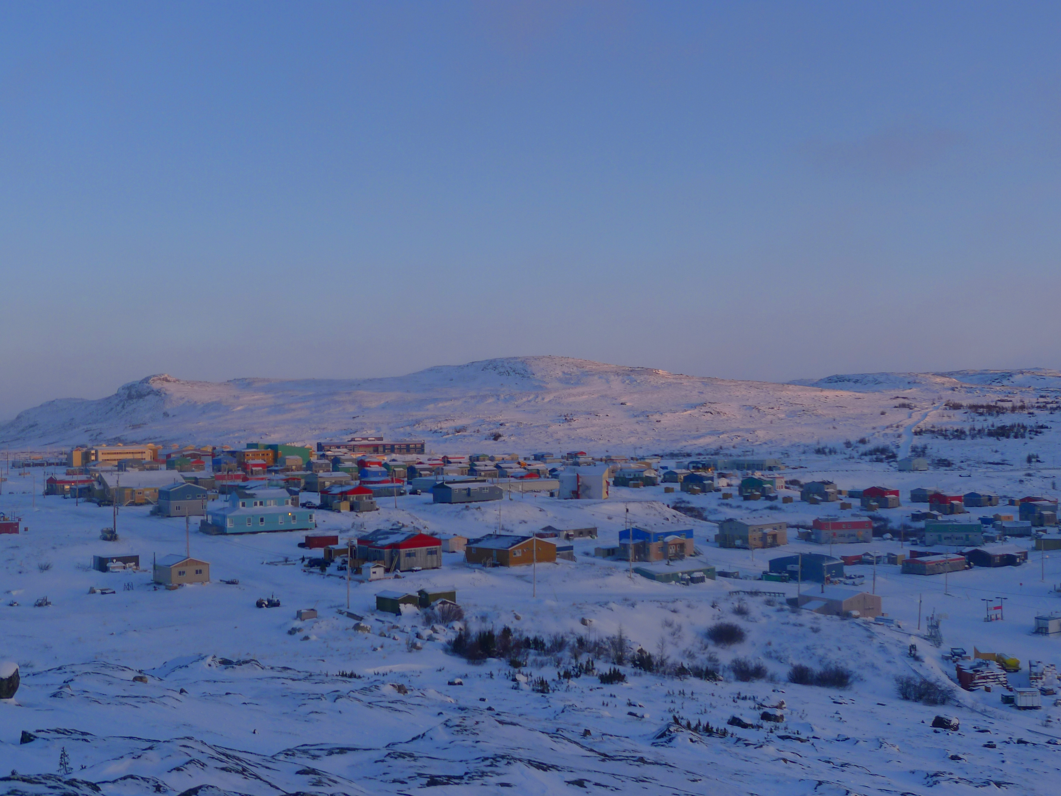 Kangiqsualujjuaq enlightened by a most extremely frigid sun rise, in March.